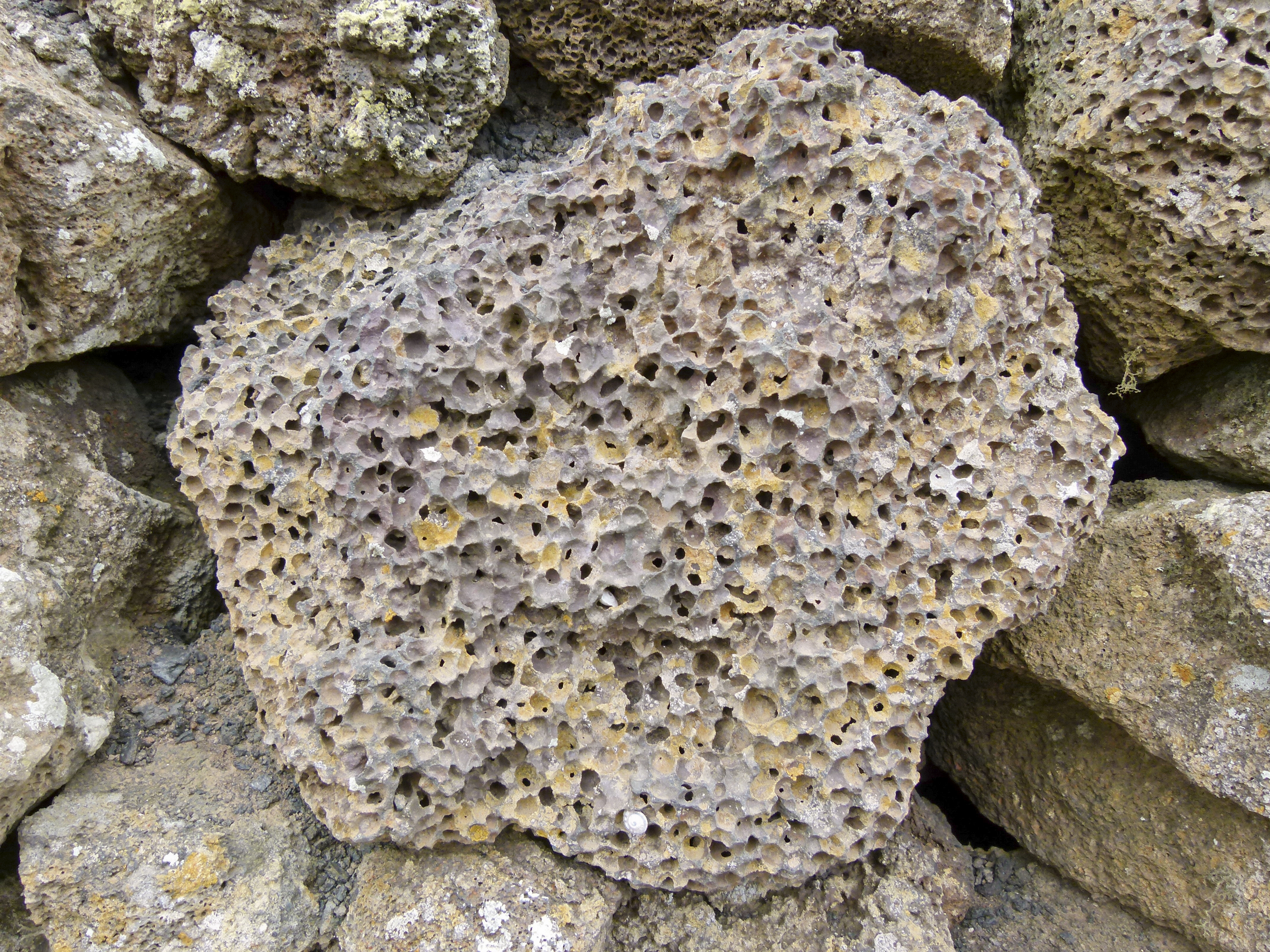 Pumice stone in a wall in Teguise, Lanzarote, Canary Islands, Spain